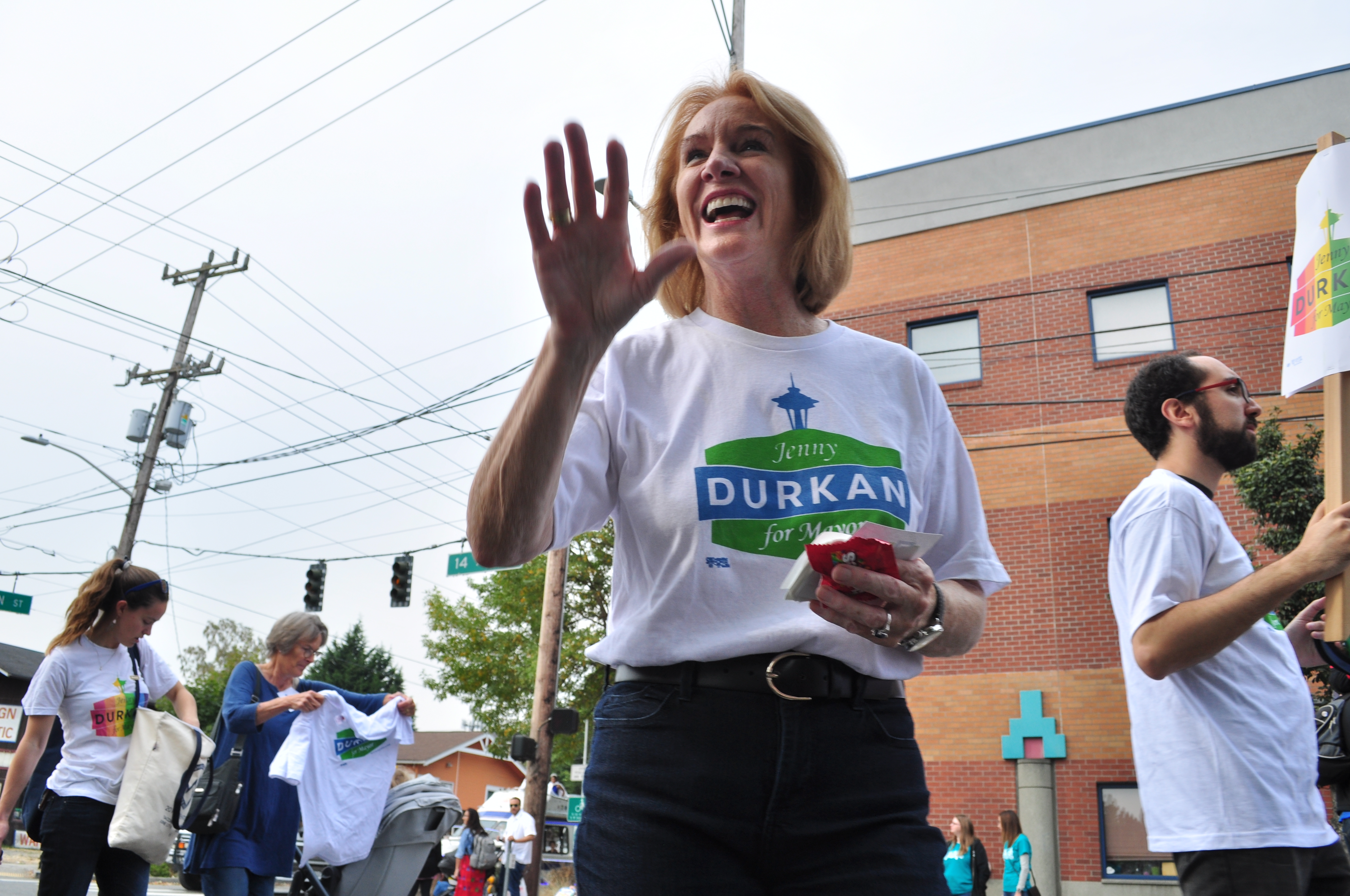 Mayoral candidate Jenny Durkan in the Fiestas Patrias Parade, South Park, Seattle, Washington, U.S., September 16, 2017.